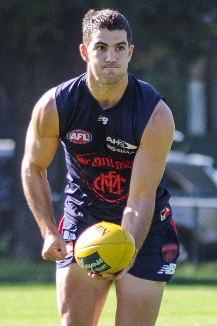 Corey Maynard during Melbourne training on 28 March 2017 at Gosch's Paddock in Melbourne, Victoria.